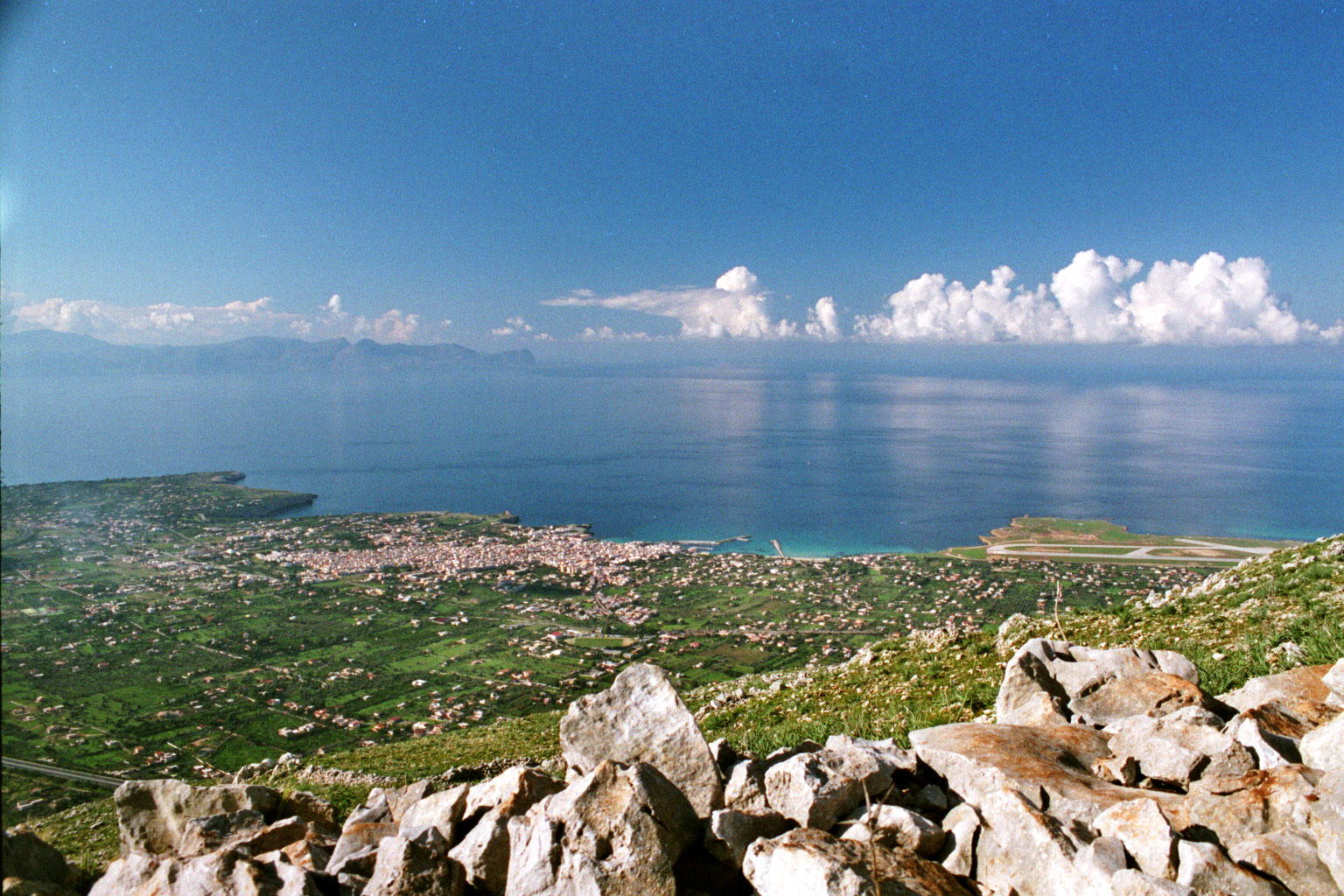 Terrasini, Italy Overview from a mountain, left from the city the Calarossa bay, on the right border of the image the airport of Palermo